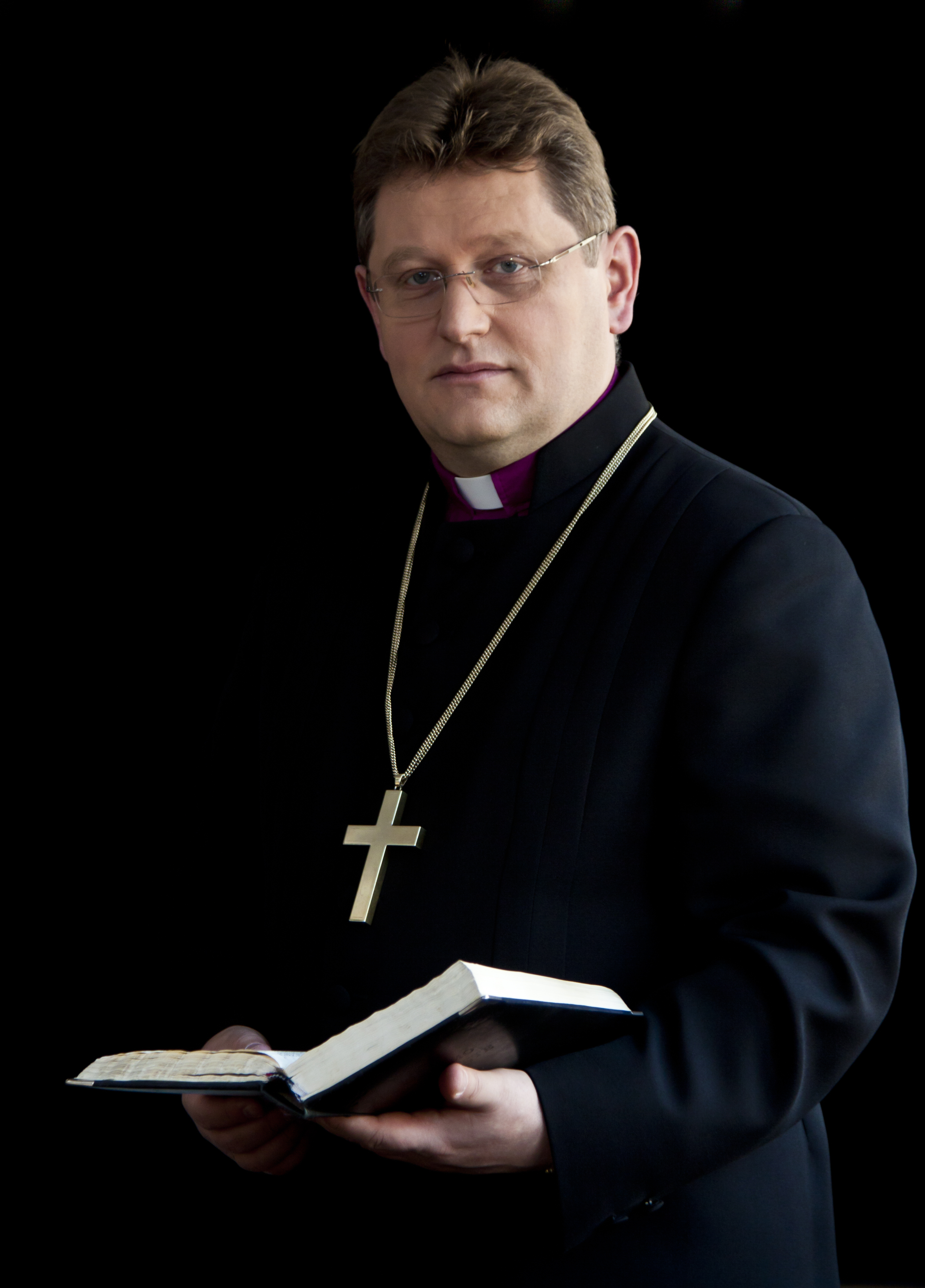 Jerzy Samiec, Polish Lutheran bishop of the Evangelical-Augsbourg Church in Poland